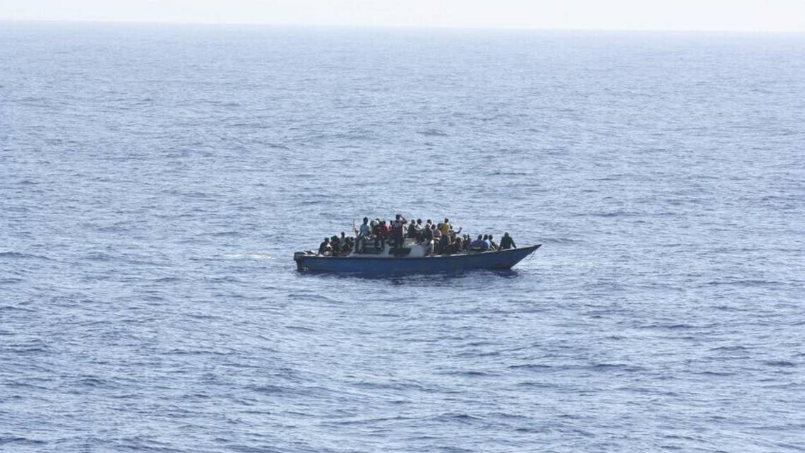 USCGC Tahoma rescued these Haitian refugees in March 2018.